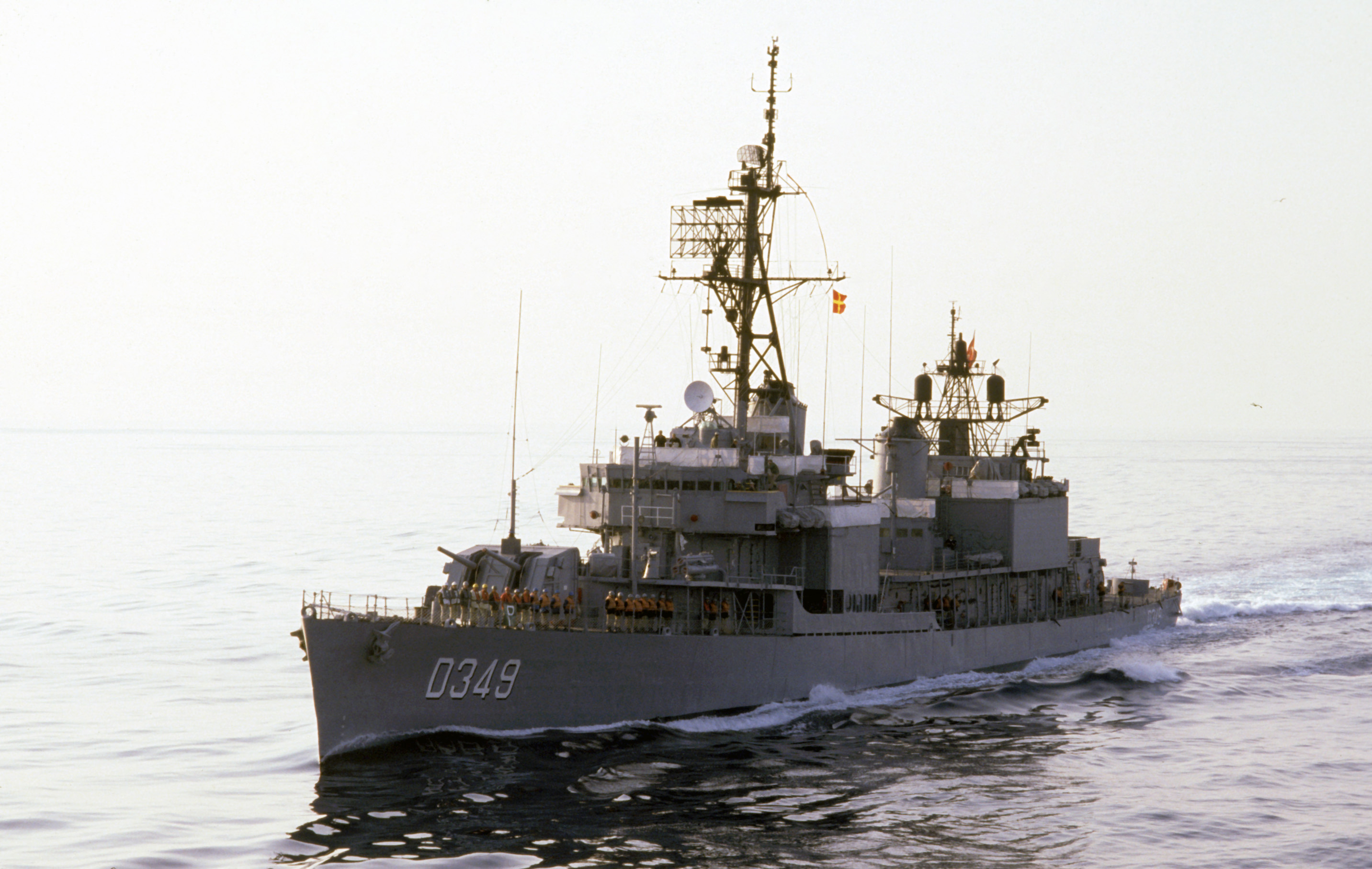 A port bow view of the Turkish destroyer KILIC ALI PASA (D 349) underway